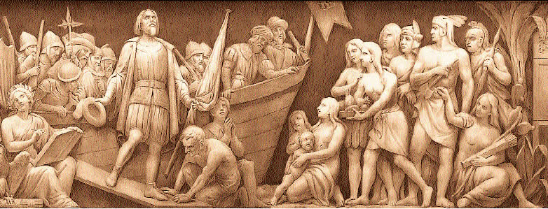 "Landing of Columbus" - Christopher Columbus disembarks from the Santa Maria on a plank, greeted by Native Americans. This is the first of four scenes of Spanish conquest. Brumidi's central figure seems to have been inspired by the statue of Columbus by Luigi Persico, which was then at the east central steps of the Capitol.